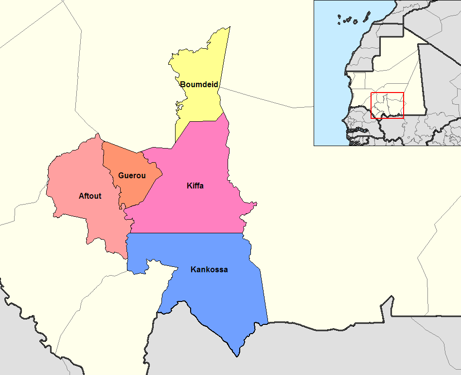 Map of the departments of Assaba region of Mauritania. Created by Rarelibra 20:06, 28 September 2006 (UTC) for public domain use, using MapInfo Professional v8.5 and various mapping resources.